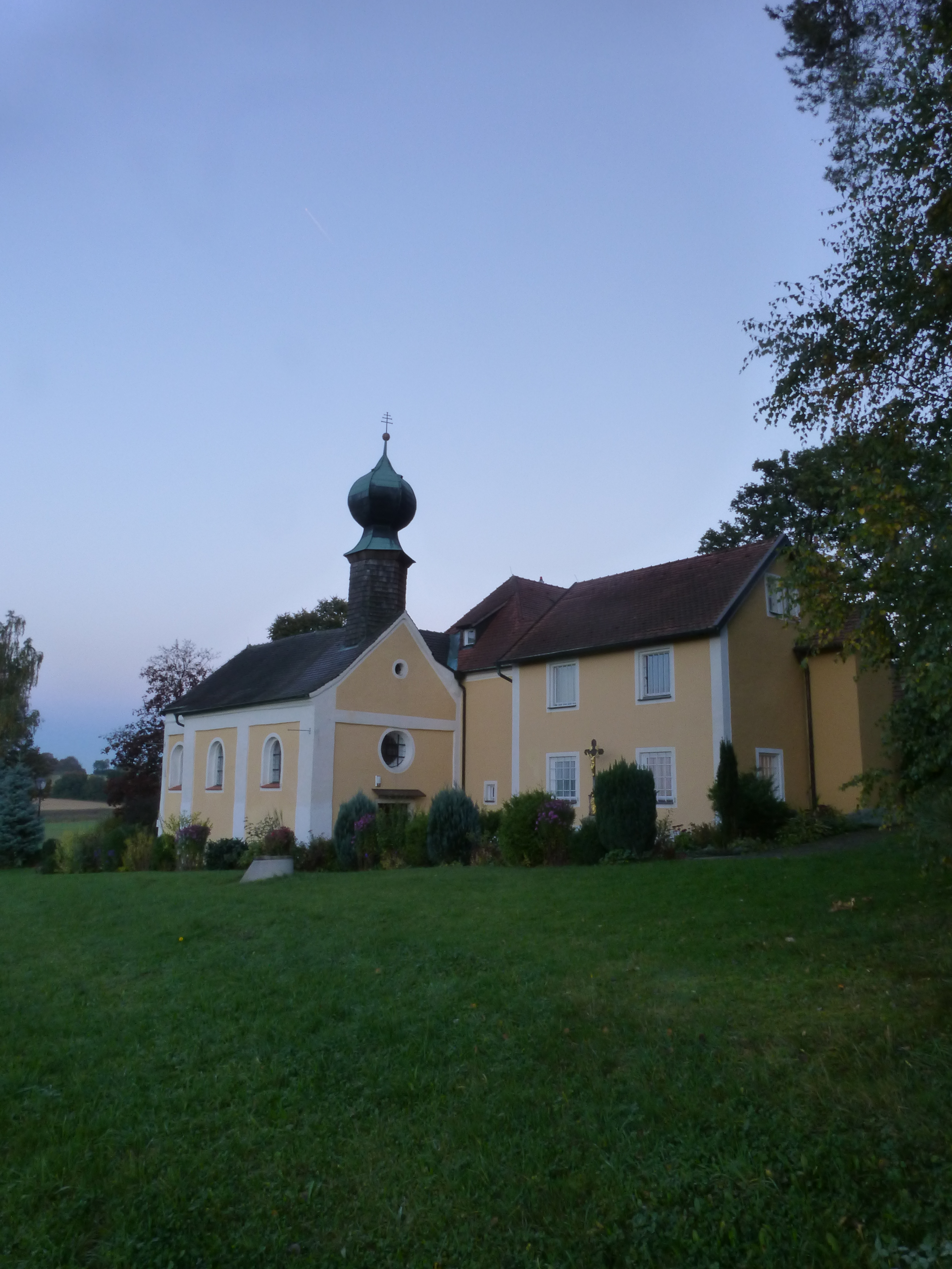 The hermitage of Frauenbründl, Bad Abbach